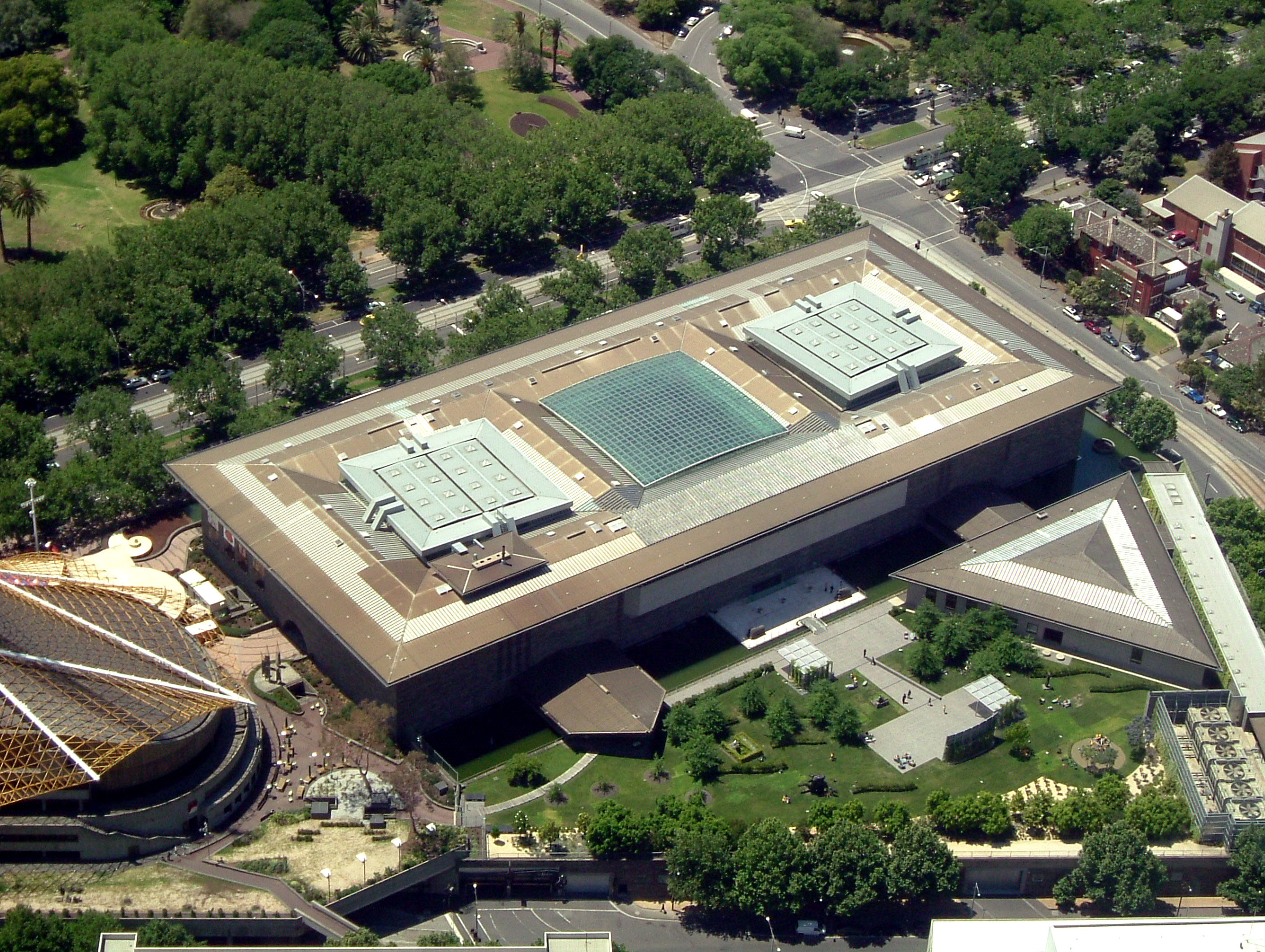 The National Gallery of Victoria, located in Southbank, Australia. Taken from Level 88 of the Eureka Tower on November 23, 2007. Can be used for any purpose for any reason.